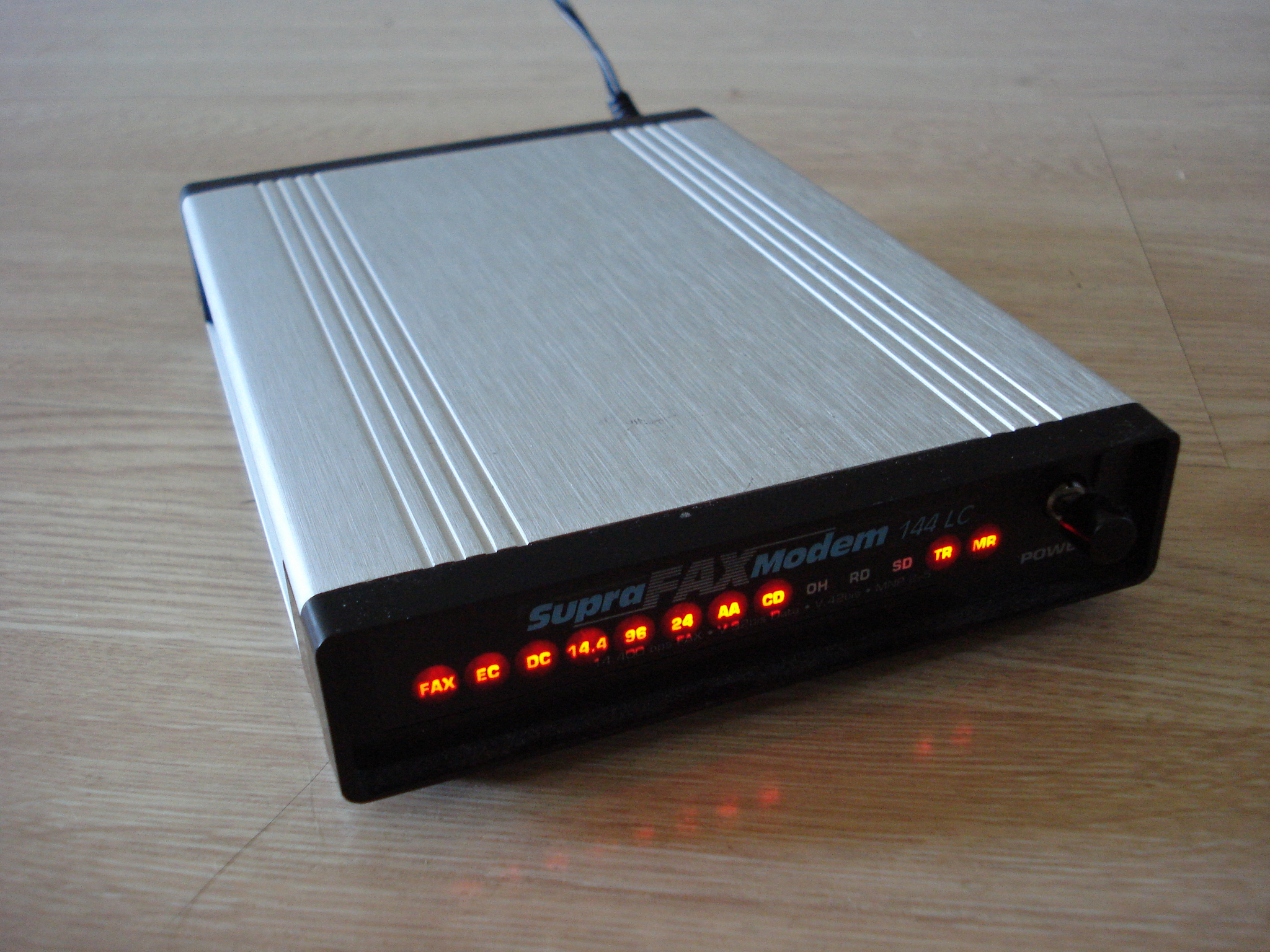 Photo of modem with diagnostic lights on at startup